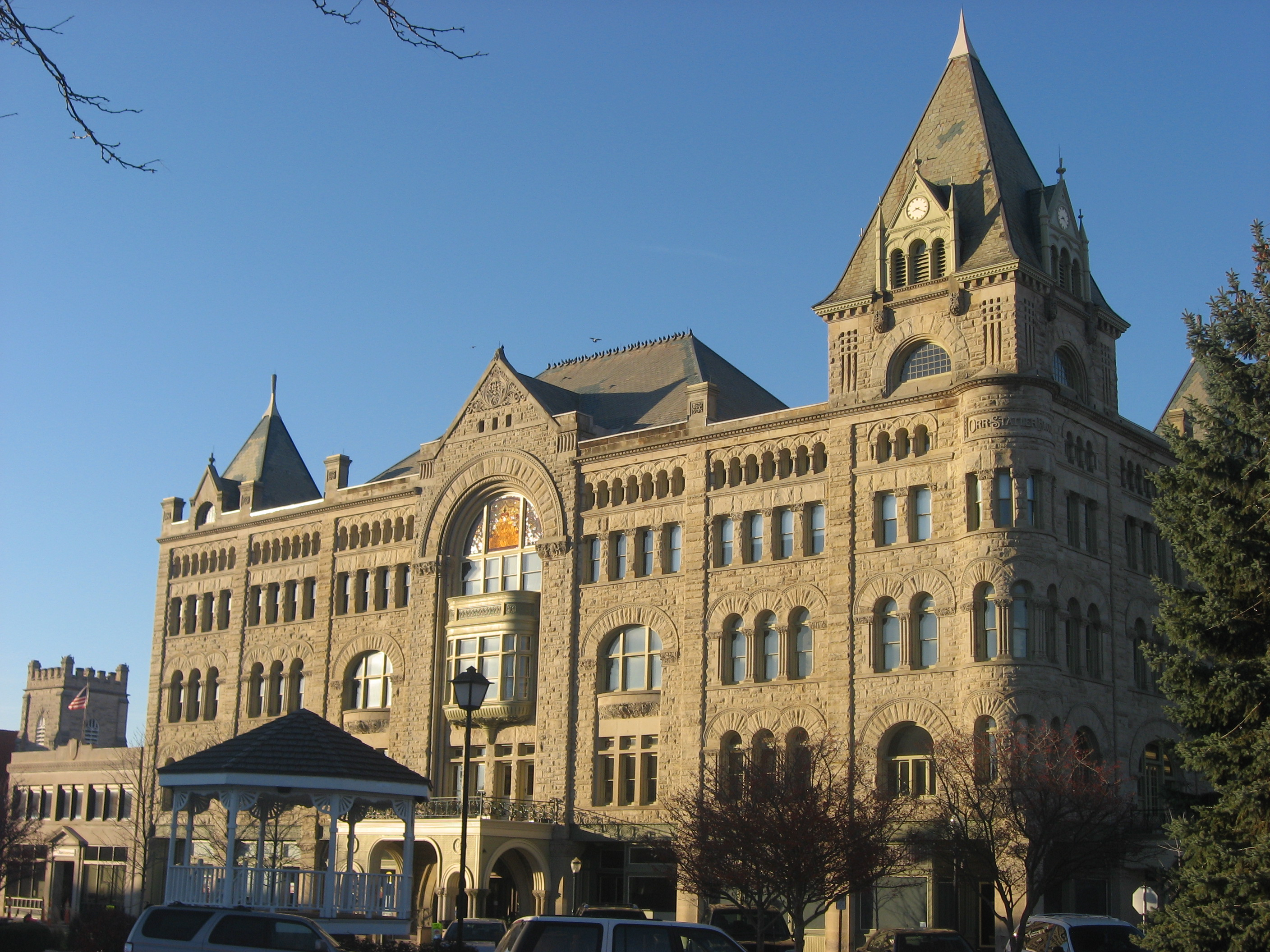 Southern side and front of the Fort Piqua Hotel (now the Piqua Public Library), located at 116 W. High Street in Piqua, Ohio, United States. Built in 1890, it is listed on the National Register of Historic Places, and it is part of a Register-listed historic district, the Piqua-Caldwell Historic District.